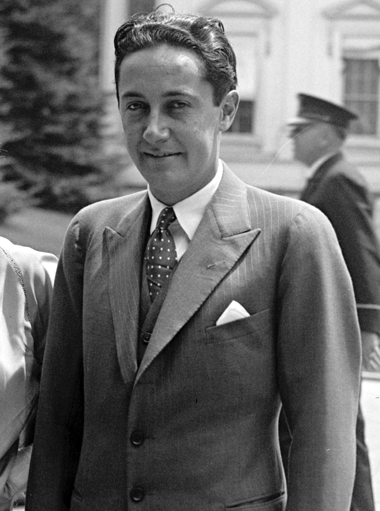 Hollywood producer Irving Thalberg.